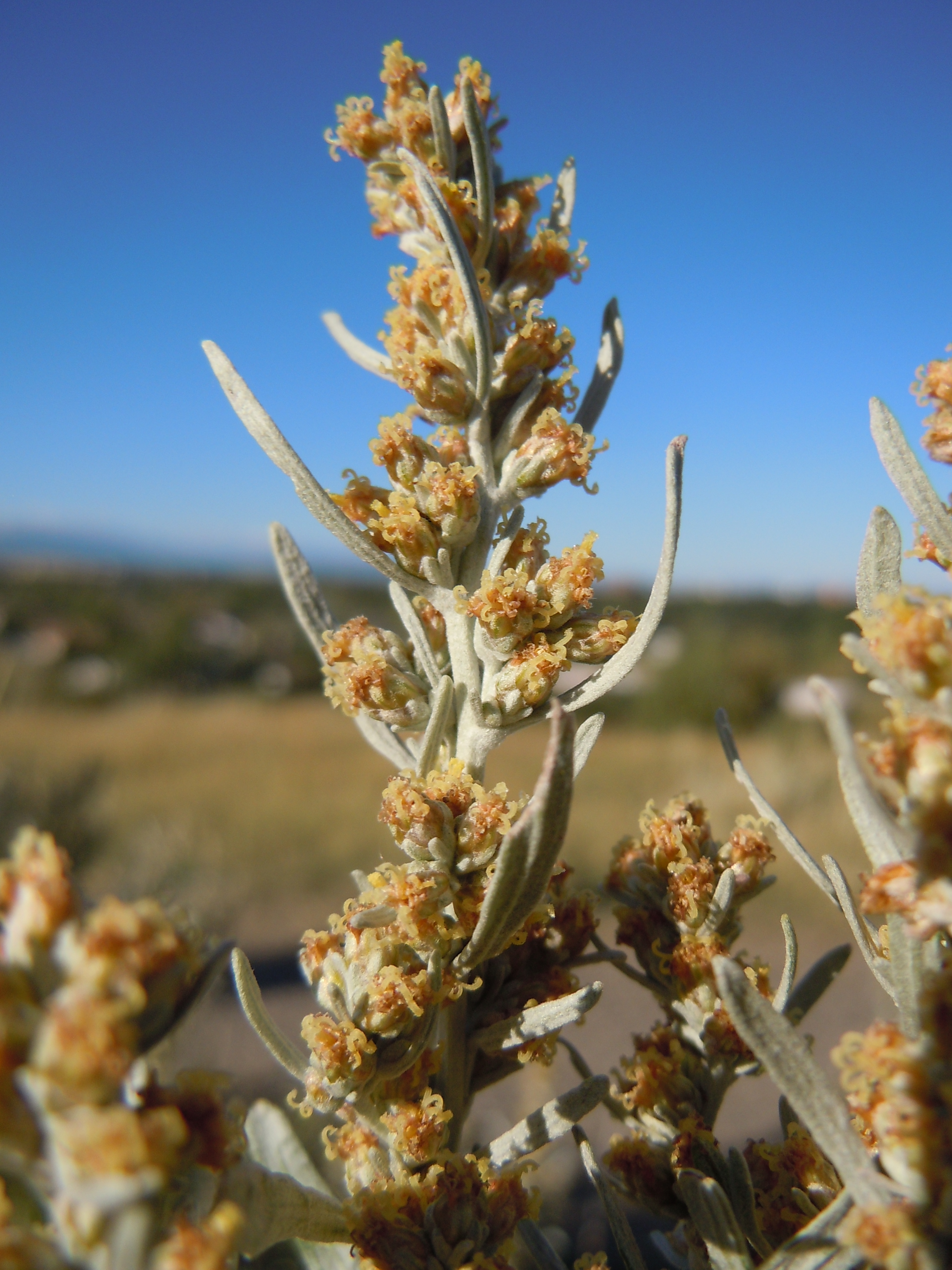 The flowering heads are clustered in the axils of leaf-like bracts.